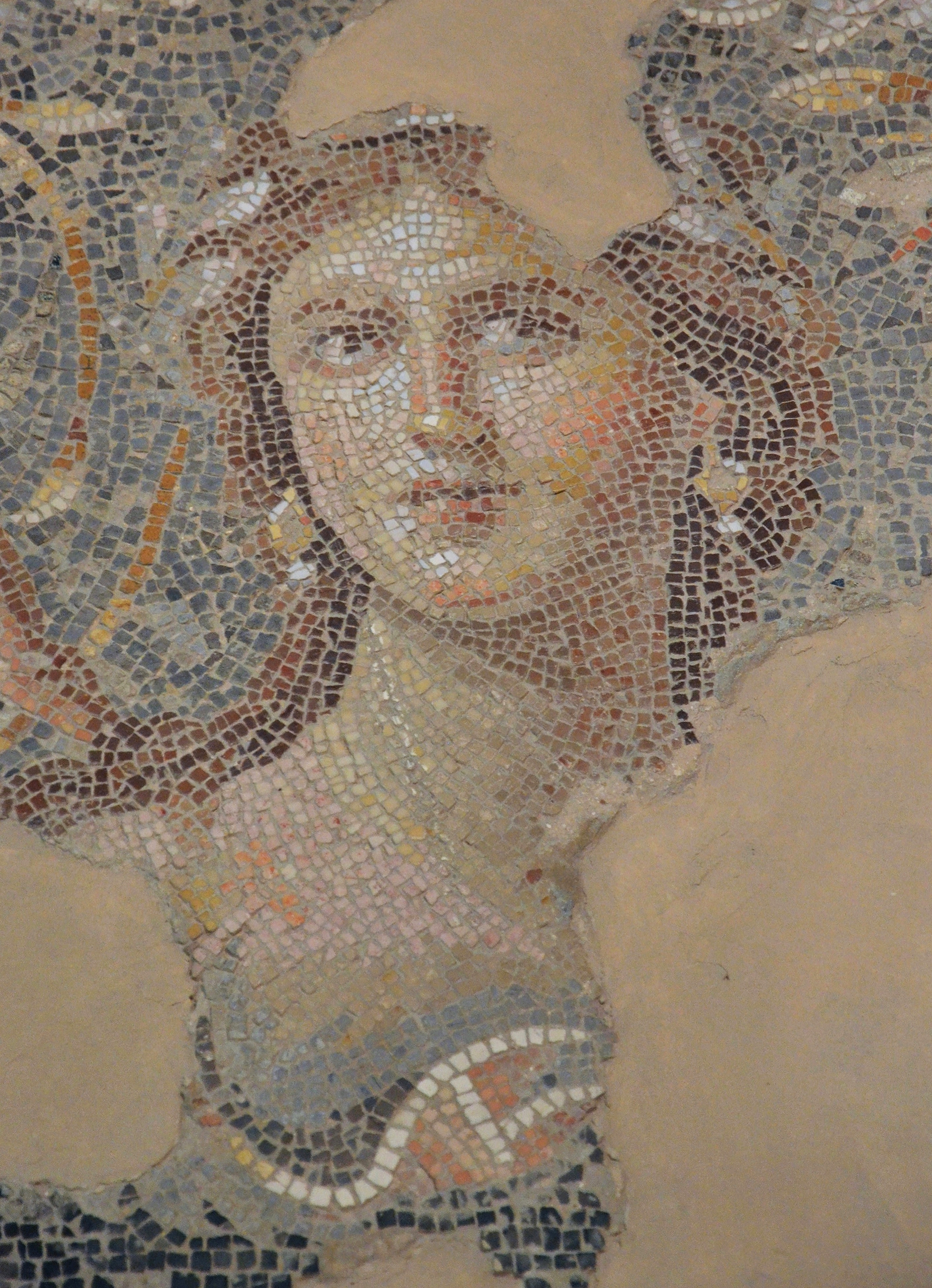 A magnificent third century Roman villa was exposed on the western side of the acropolis of Sepphoris. This two-story residence contained many rooms, some paved with colorful mosaics, surrounding a central, atrium-type courtyard; columns supported its covered porticoes. The courtyard was connected by doors to a triclinium, the largest room in the building, paved with a magnificent mosaic floor. The decorated part of the floor formed the shape of the letter T, which enabled guests, reclining on couches on three sides of the room, to enjoy the many panels of the floor. They depict, in over twenty shades of colored tessarae, the life of Dionysus, Greek god of wine, and scenes of daily life connected with the rites of Dionysus.